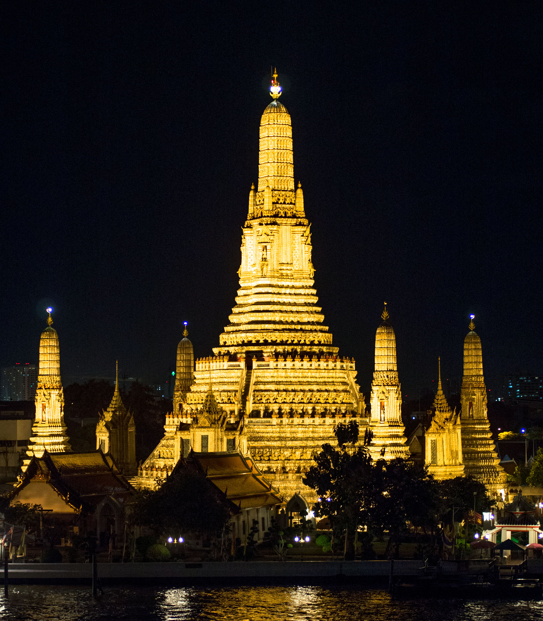 Wat Arun (Temple of Dawn) at night as seen from across the river at the Eagle Nest rooftop bar.